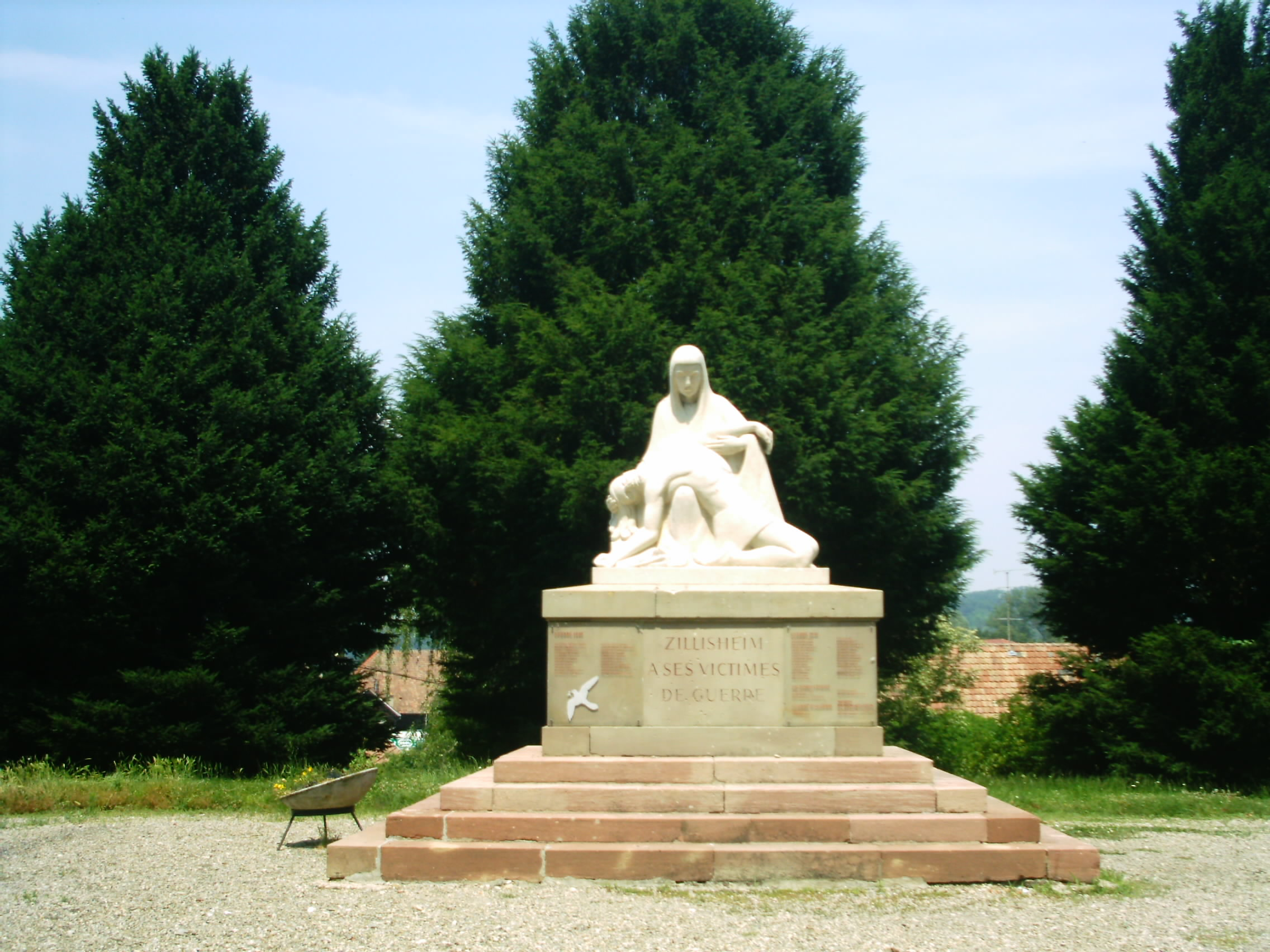 War memorial from Zillisheim-France